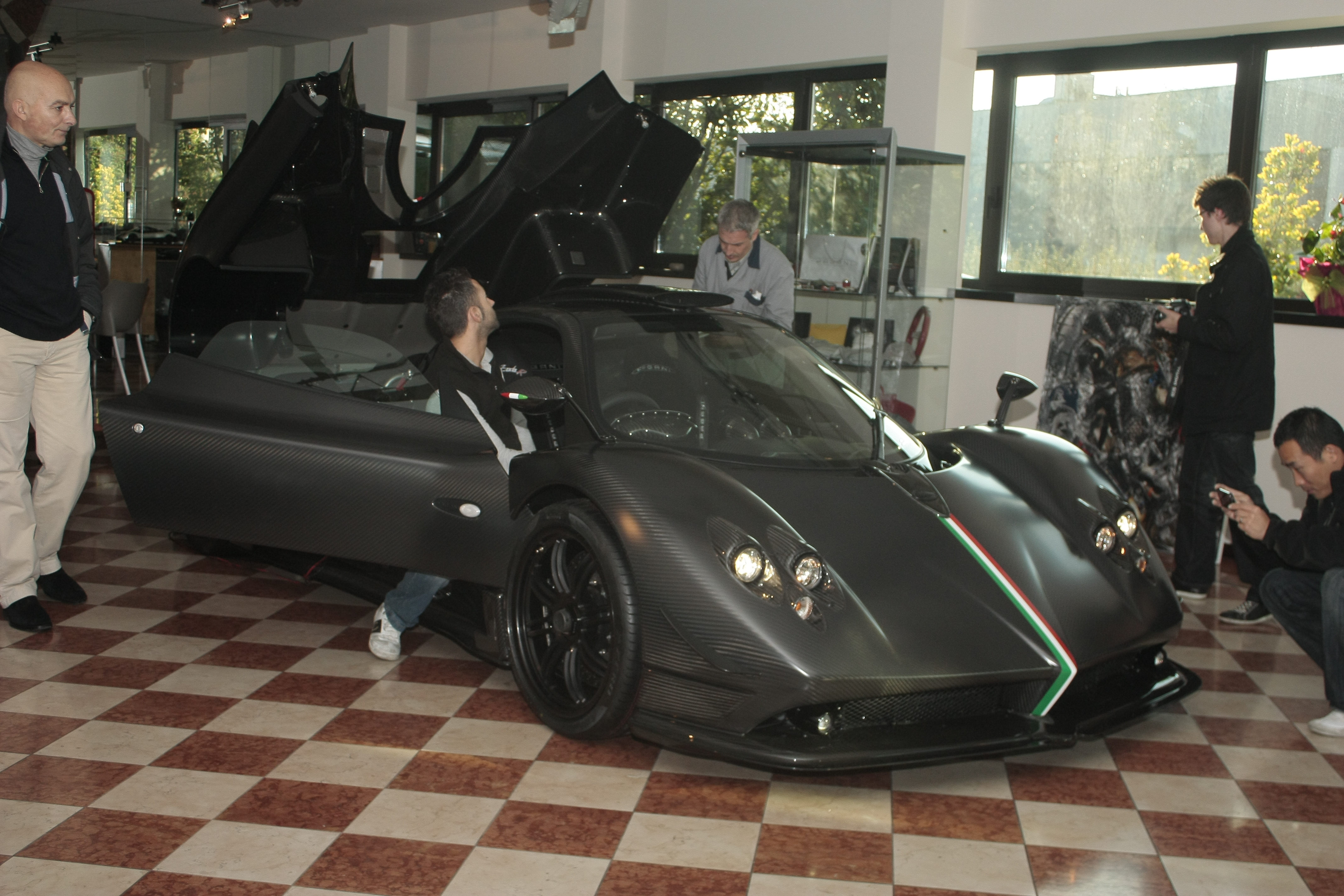 This is a picture of the one-off Pagani Zonda Absolute. It is destined for a Hong Kong buyer. It features a carbon fiber body and the 7.3L AMG V12 engine from the Cinque.